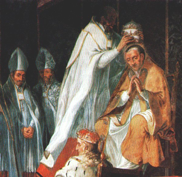 Pope Celestin V was crowned in L'Aquila